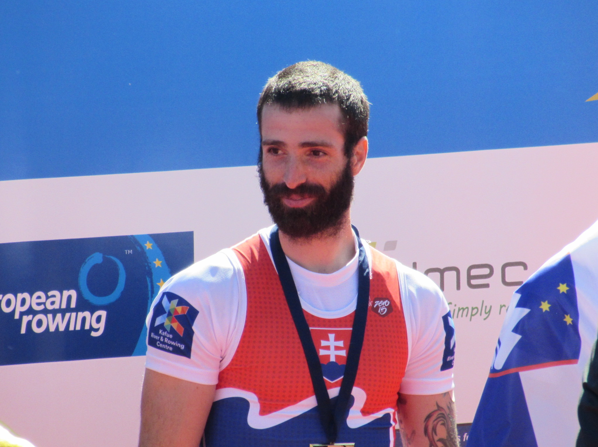 Lukáš Babač at the 2016 European Rowing Championships in Brandenburg an der Havel, Germany